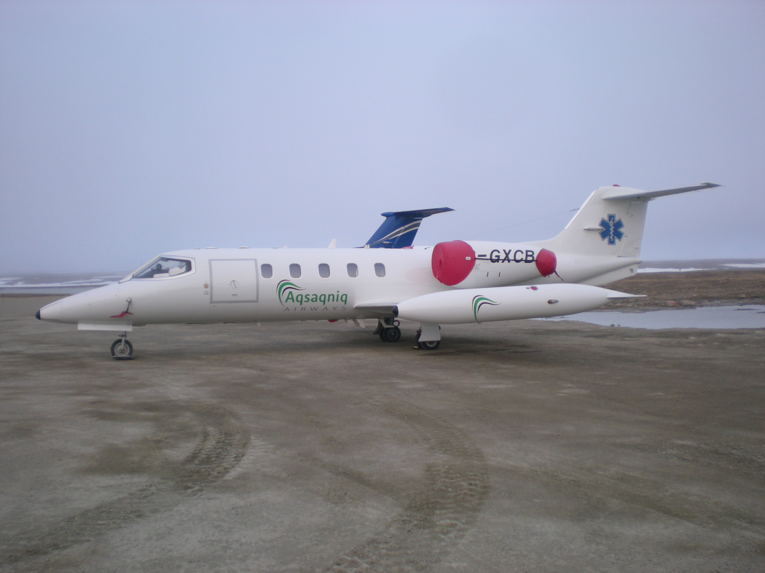 Aqsaqniq Airways, registerd to Air Tindi, at Cambridge Bay Airport. Medivac aircraft.